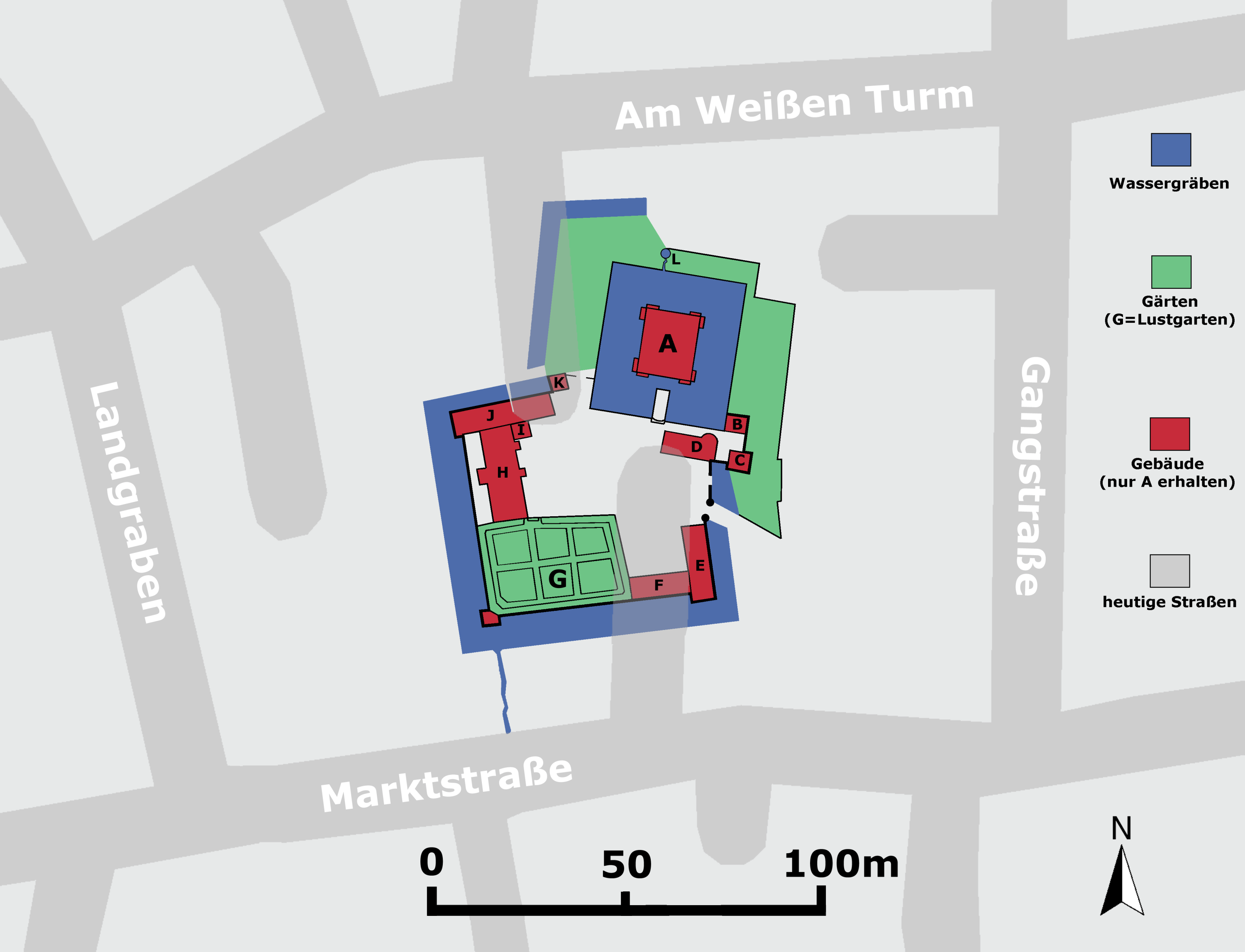 Frankfurt/Main - Bergen-Enkheim, "Schelmenburg".